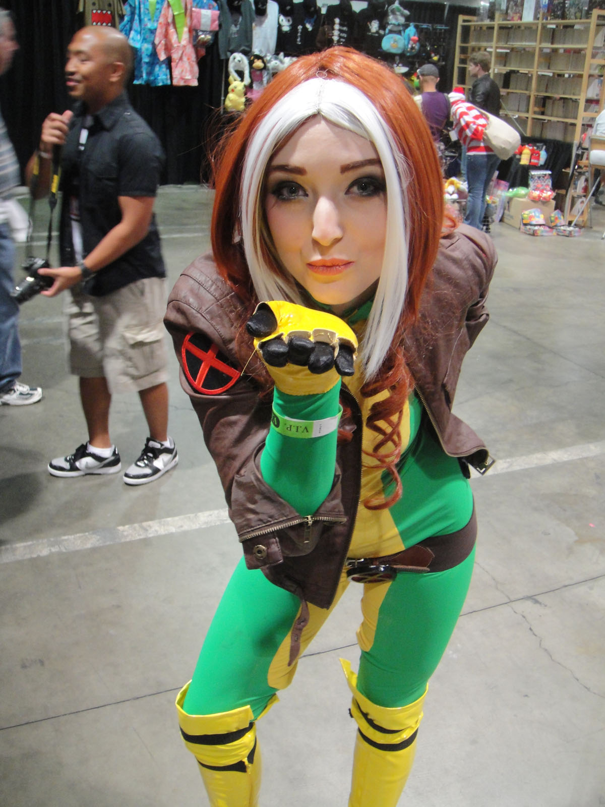 photo 2011 Pop Culture Geek taken by Doug Kline If you're interested in higher resolution versions of my images, contact me via my profile page.